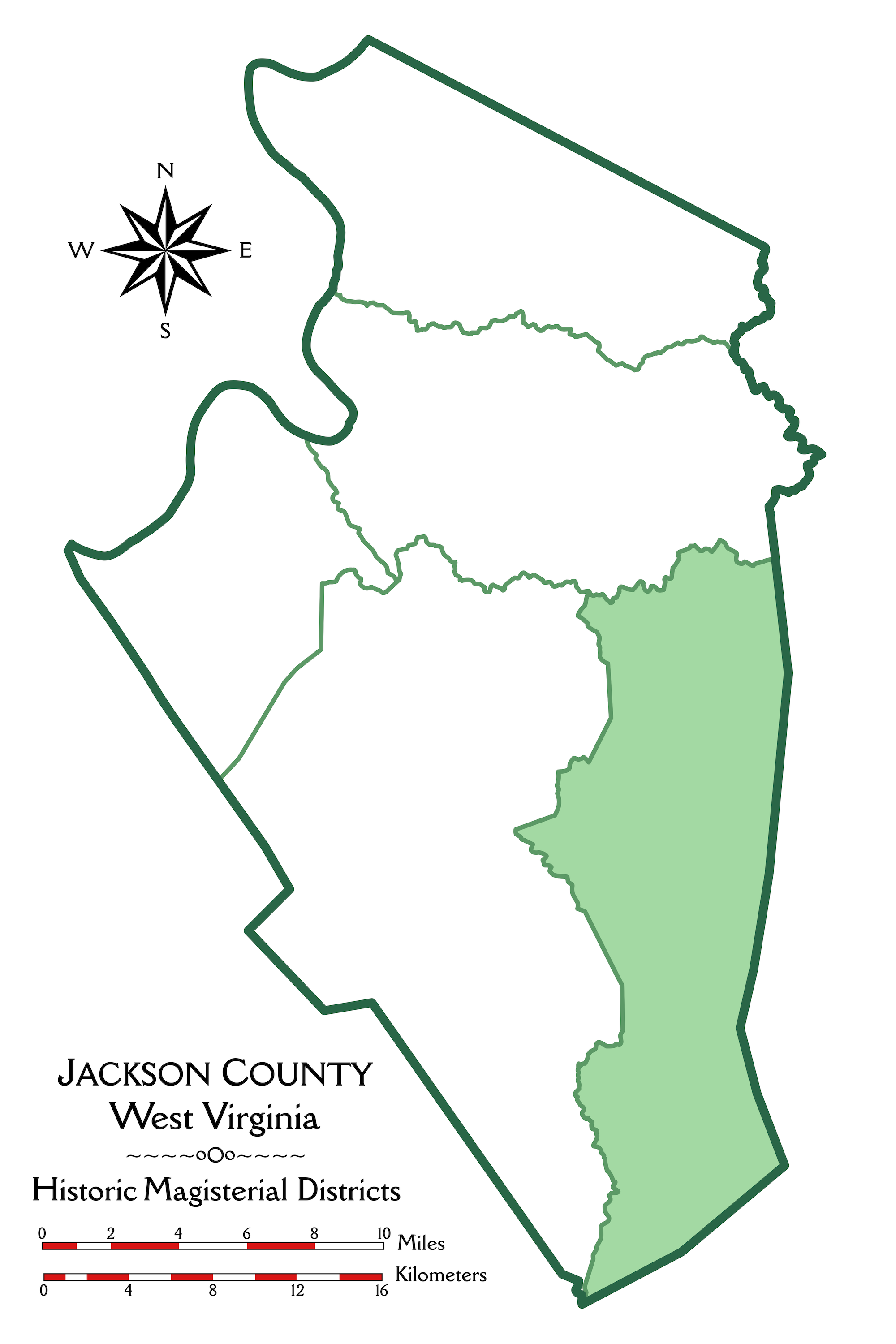 Outline map of Jackson County, West Virginia, showing the boundaries of the historic magisterial districts. Washington District is shaded.